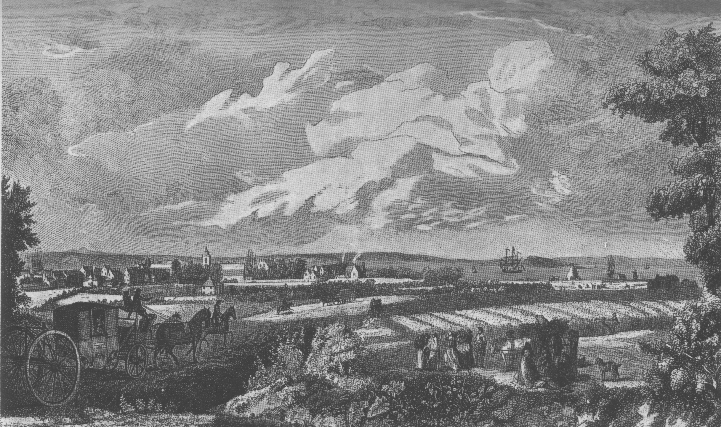 Easter Road is described as the "old Coach road to Leith" on a map of 1825 by James Kyle, superintendant of military Roads. The church in the distance is South Leith Parish Church, and there appears to be a glass bottle kiln just to the right of the ship moored in Leith Roads. In 1763—There were two stage-coaches, with three horses, a coachman, and postillion to each coach, which went to the port of Leith [from Edinburgh] (a mile and a half distant) every hour from eight in the morning, till eight at night, and consumed a full hour upon the road. In 1783—There were five or six stagecoaches to Leith every half-hour, which ran it in fifteen minutes. (from a letter by the publisher William Creech to Sir John Sinclair, The Statistical Account of Scotland, 1791-99)